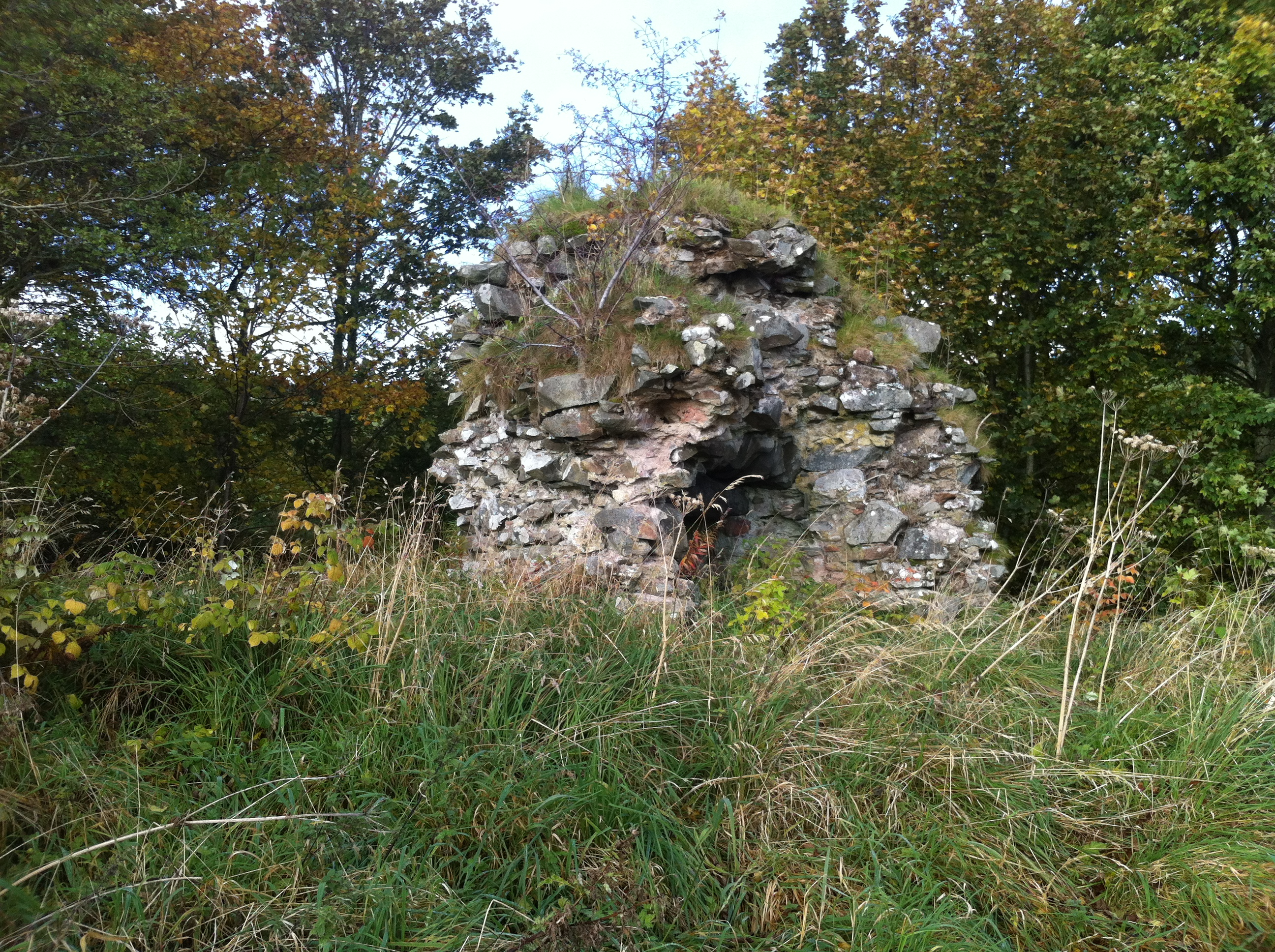 Ruins of Bonkyll Castle, Berwickshire, Scotland